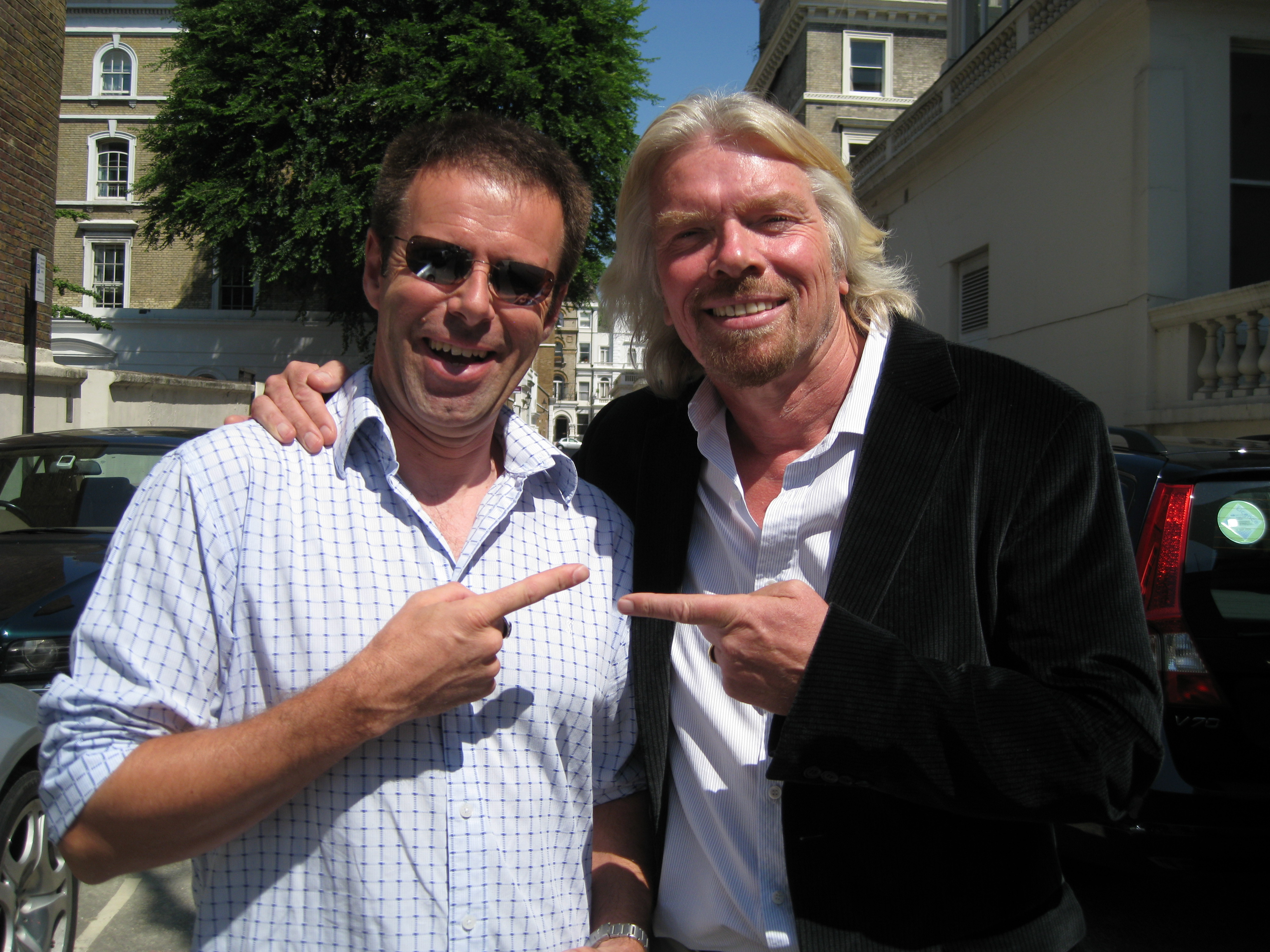 Ian Usher meets Sir Richard Branson as part of his 100goals100weeks challenge. Meeting Sir Richard Branson marked the successful completion of usher's 46th goal.